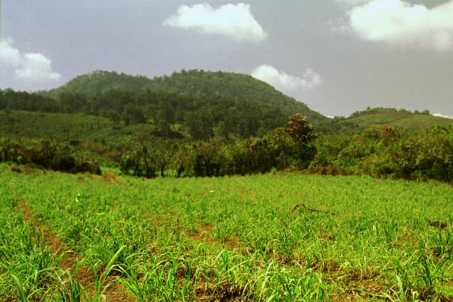 Eastern side of forested Cerro Babilonia cinder cone, that rises above fields north of Lake Yojoa in north-central Honduras.